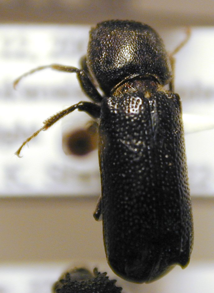 Amphicerus cornutus (Bostrichidae) from Hawai'i.